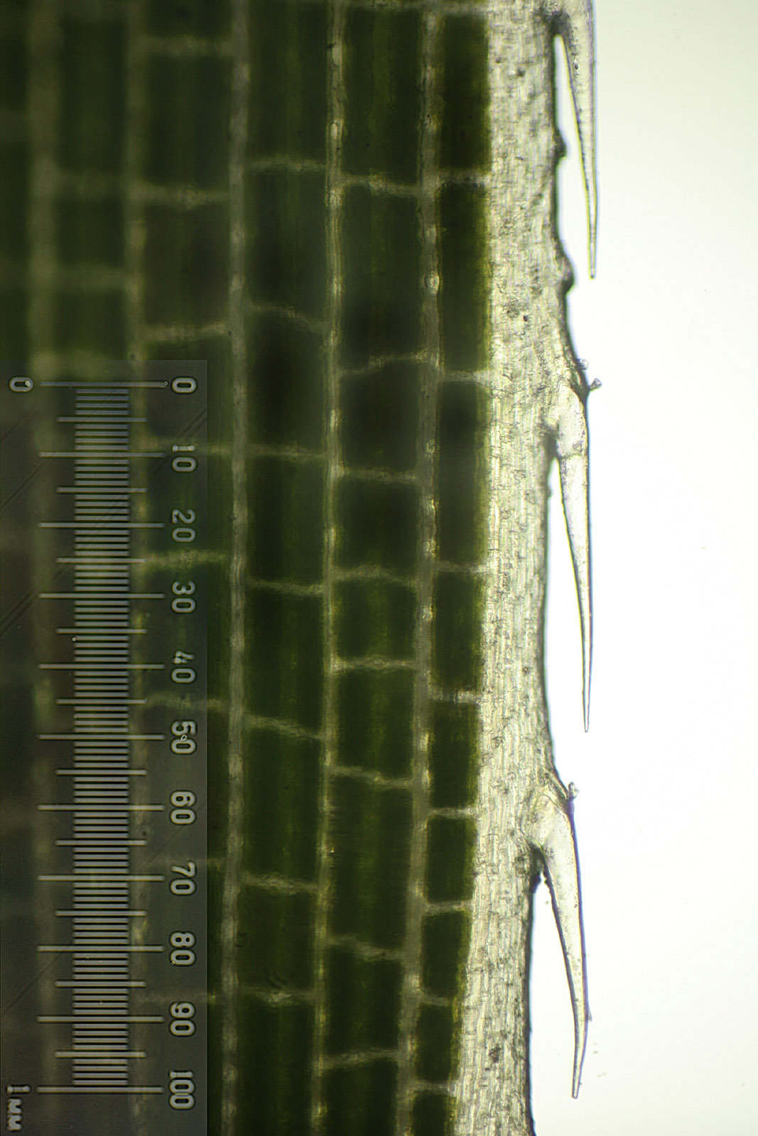 Bamboo leaf (Phyllostachys bambusoides